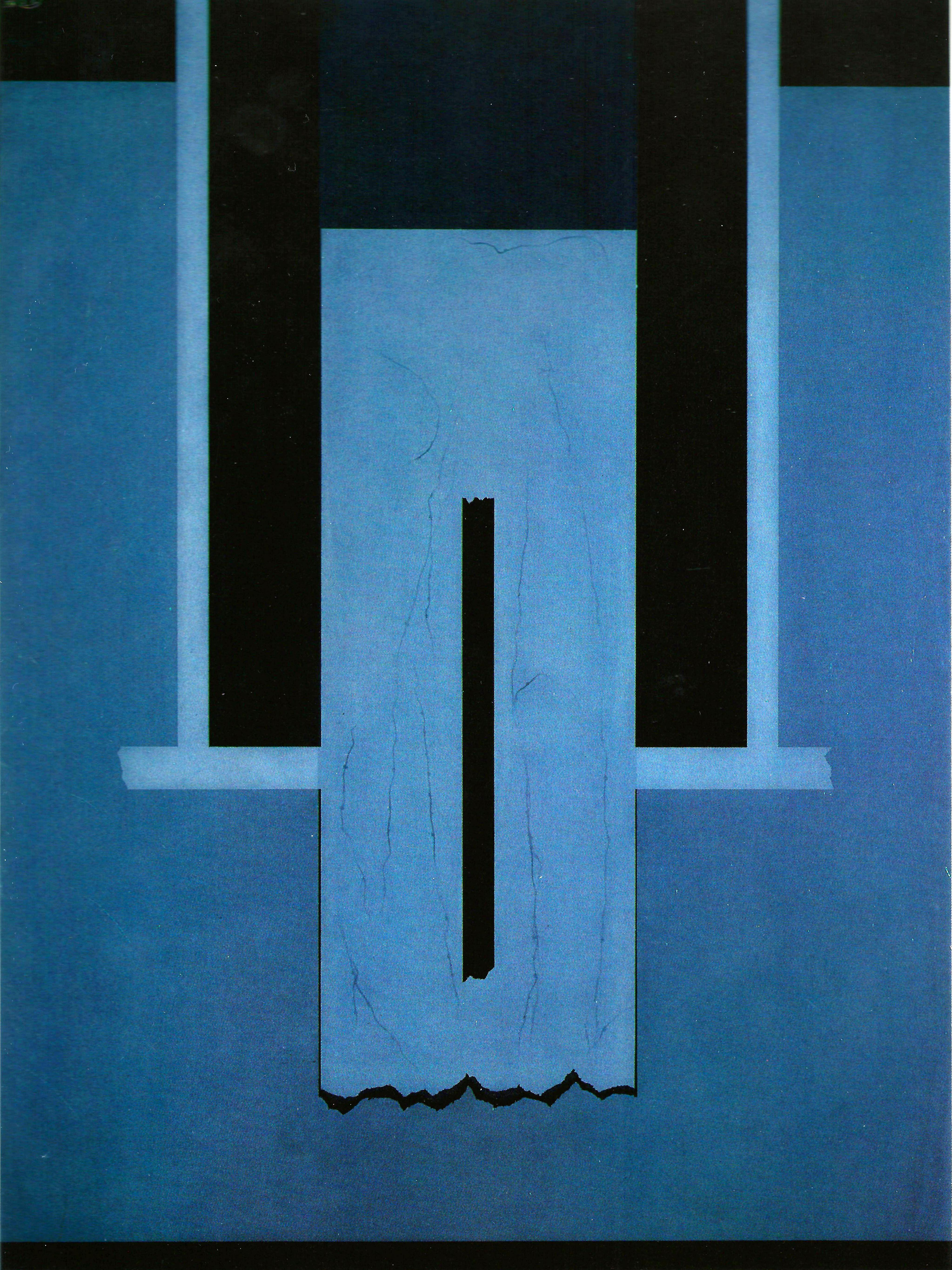 "Stations of the Cross XIV, Entombment" — by Robert Kehlmann (1976). Corning Museum of Glass collection, New York. Sandblasted glass, double glazed.